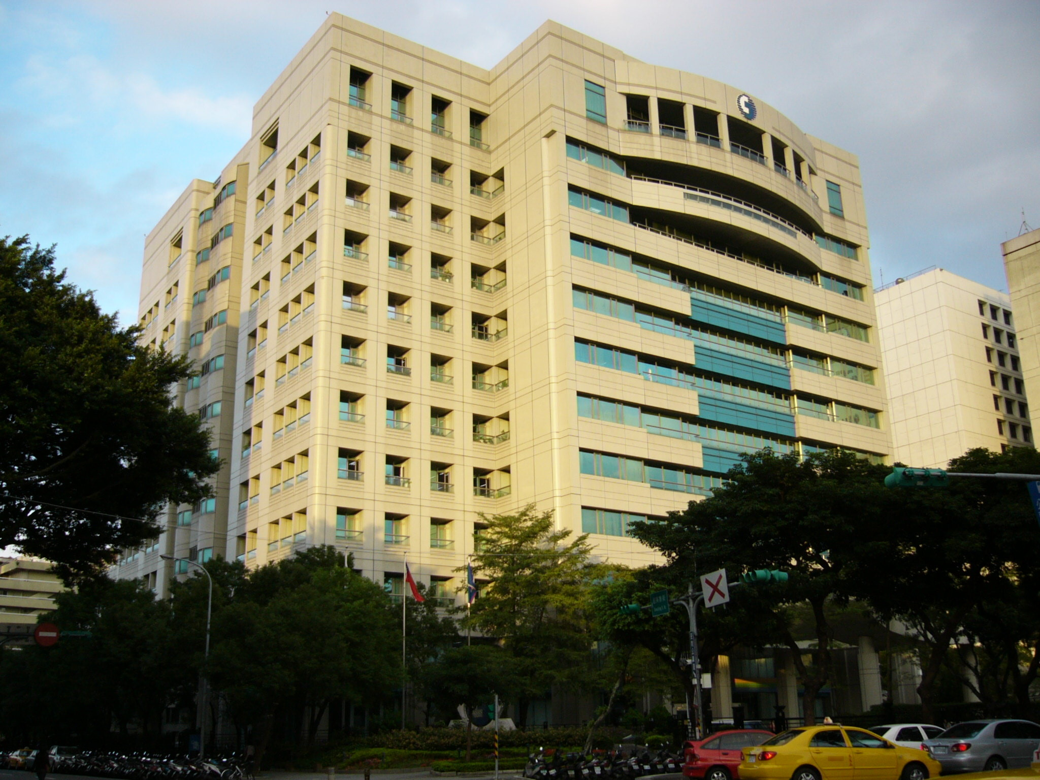 Chunghwa Telecom headquarter office